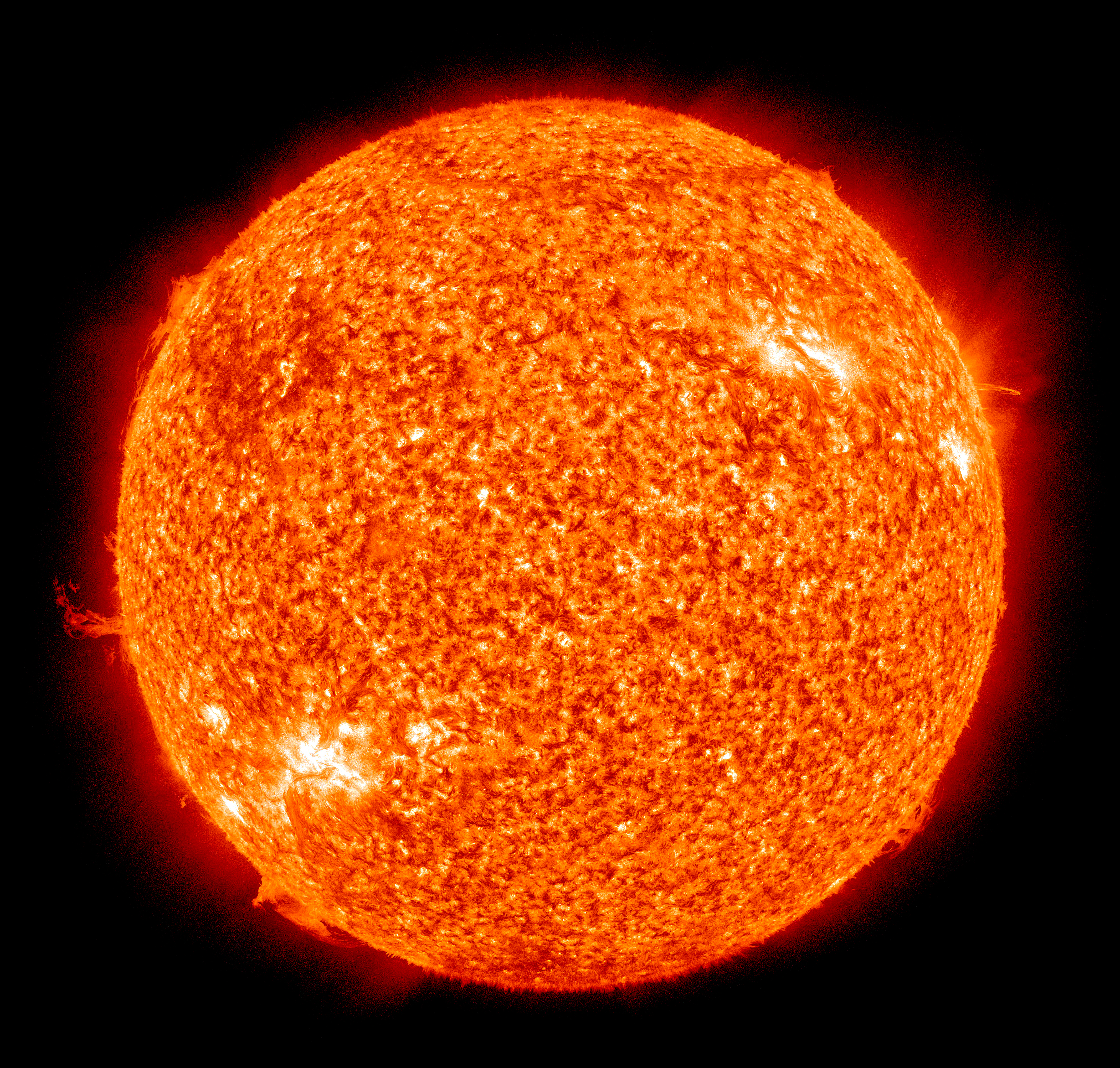 The Sun photographed at 304 angstroms by the Atmospheric Imaging Assembly (AIA) of NASA's Solar Dynamics Observatory (SDO).